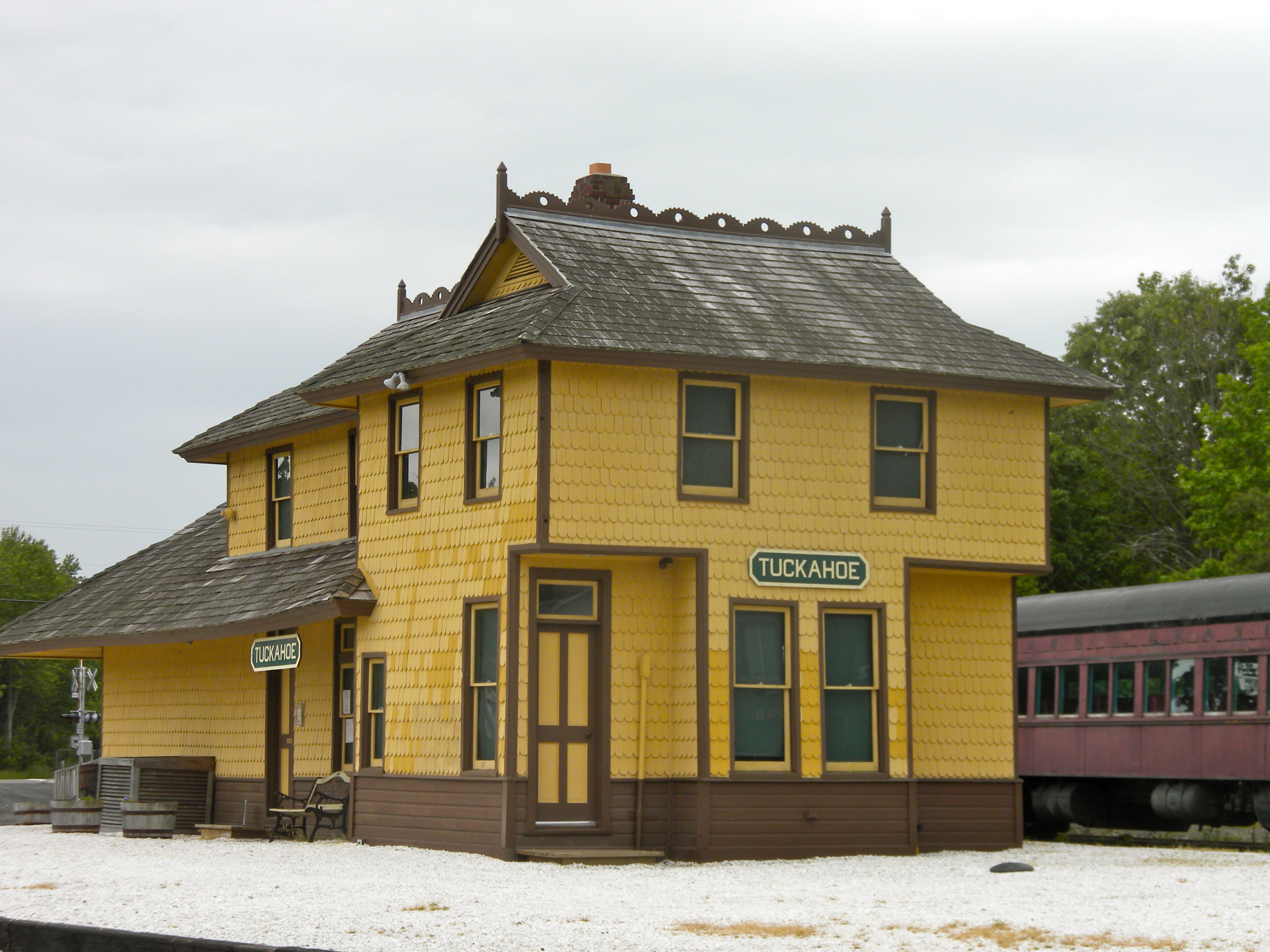 View of Tuckahoe Station, Railroad Ave. and Mill Rd. in Tuckahoe, Upper Township, Cape May County, New Jersey. Built 1894. Listed on NRHP June 22, 1984. Headquarters for Cape May Seashore Lines.